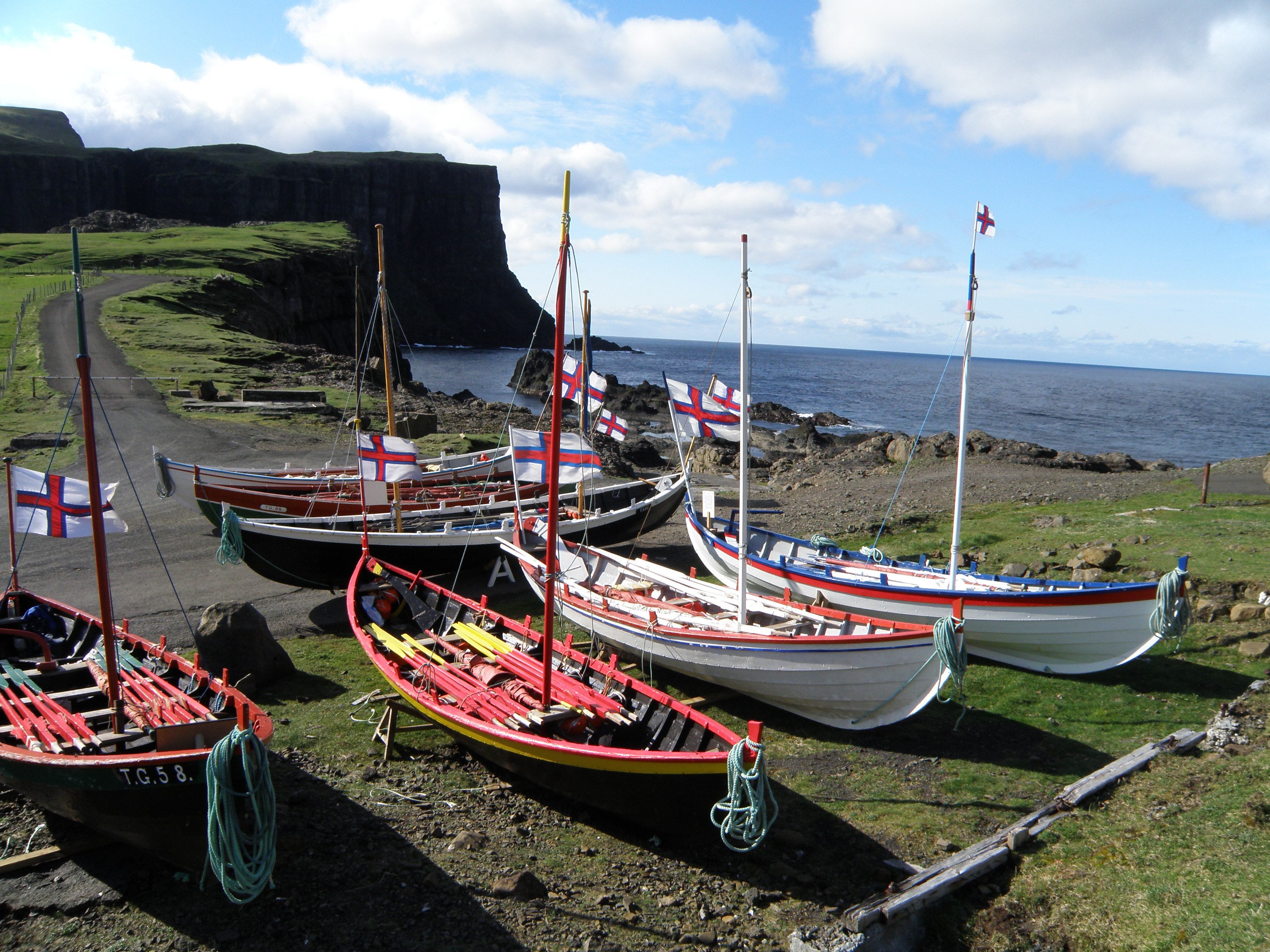 On this photo there are seven so-called Grindabátar or Faroe Boats from the village Vágur in Suðuroy, Faroe Islands. There are 10 of these boats in Vágur. The oldest one is Gjógvarábáturin, which was built in 1873. The other boats are: Svanurin, built in 1900, Trolarin, built in 1901, Norðstjørnan, built in 1902, Sildberin, built in 1903,Oyrabáturin, built in 1920'ies, Toftaregin, built in 1933, Hvalurin, built in the 1930'ies, Sigmundur Brestisson, built in 1939/40 and Dýrið, built in 1971. There are other Faroe Boats in Vágur, but these have been used for whaling and not for fishing. That is about to be history, because the whales are so poisoned due to pollution, and because of pressure from other countries. This photo was taken on Vágseiði west of Vágur on 24 May 2010, they should have gone for a boat trip to Sumba, but because of too strong wind and stream the trip was cancelled. There are several men who own these boats. The boats are for 8 or 10 men and one to steer the boat. The boats are wooden oar boats, built in traditional Faroese way. Website